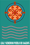 shield of Caazapá